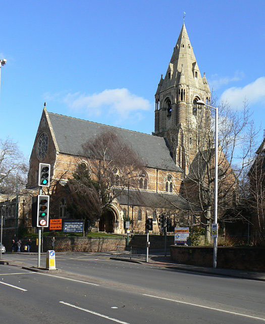 St Andrew's parish church, Mansfield Road, Nottingham, seen from the south. Designed by William Knight and built 1869–71.